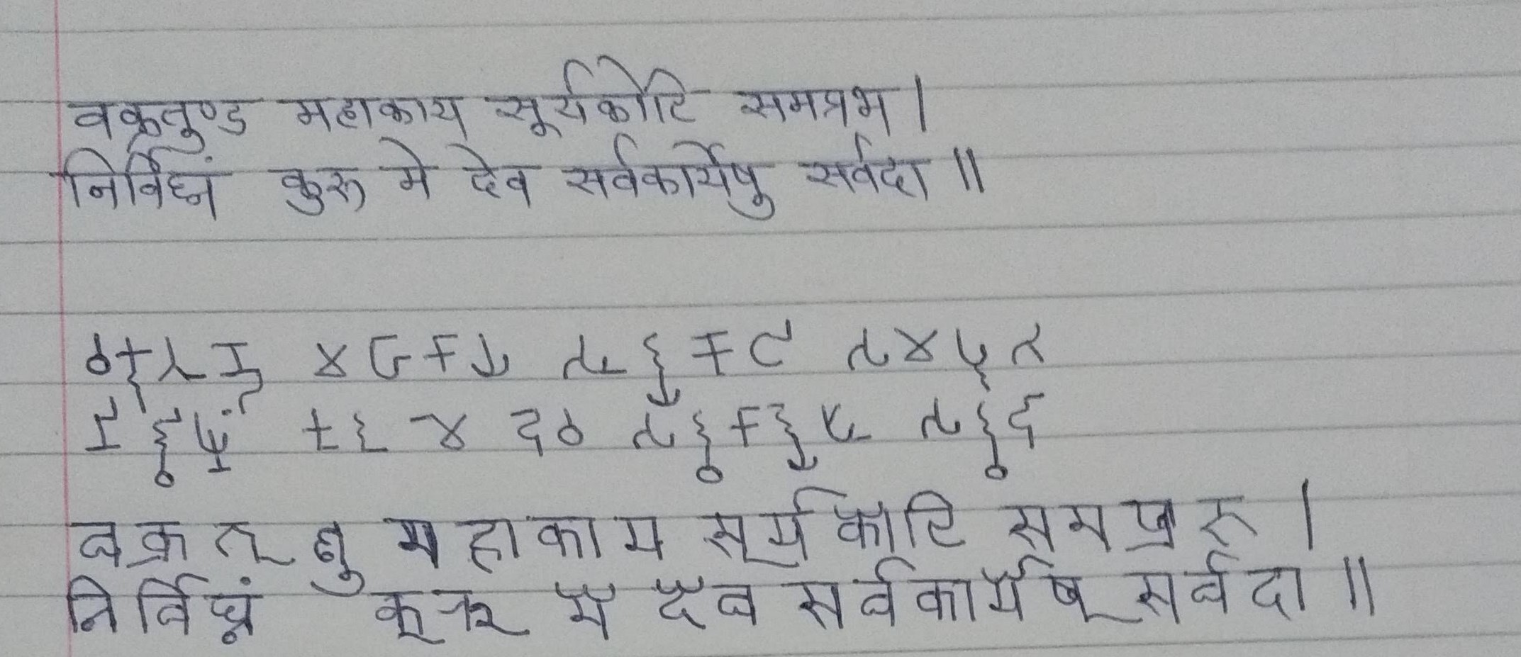 Ganesh Mantra in Devnagari, Brahmi and Newari